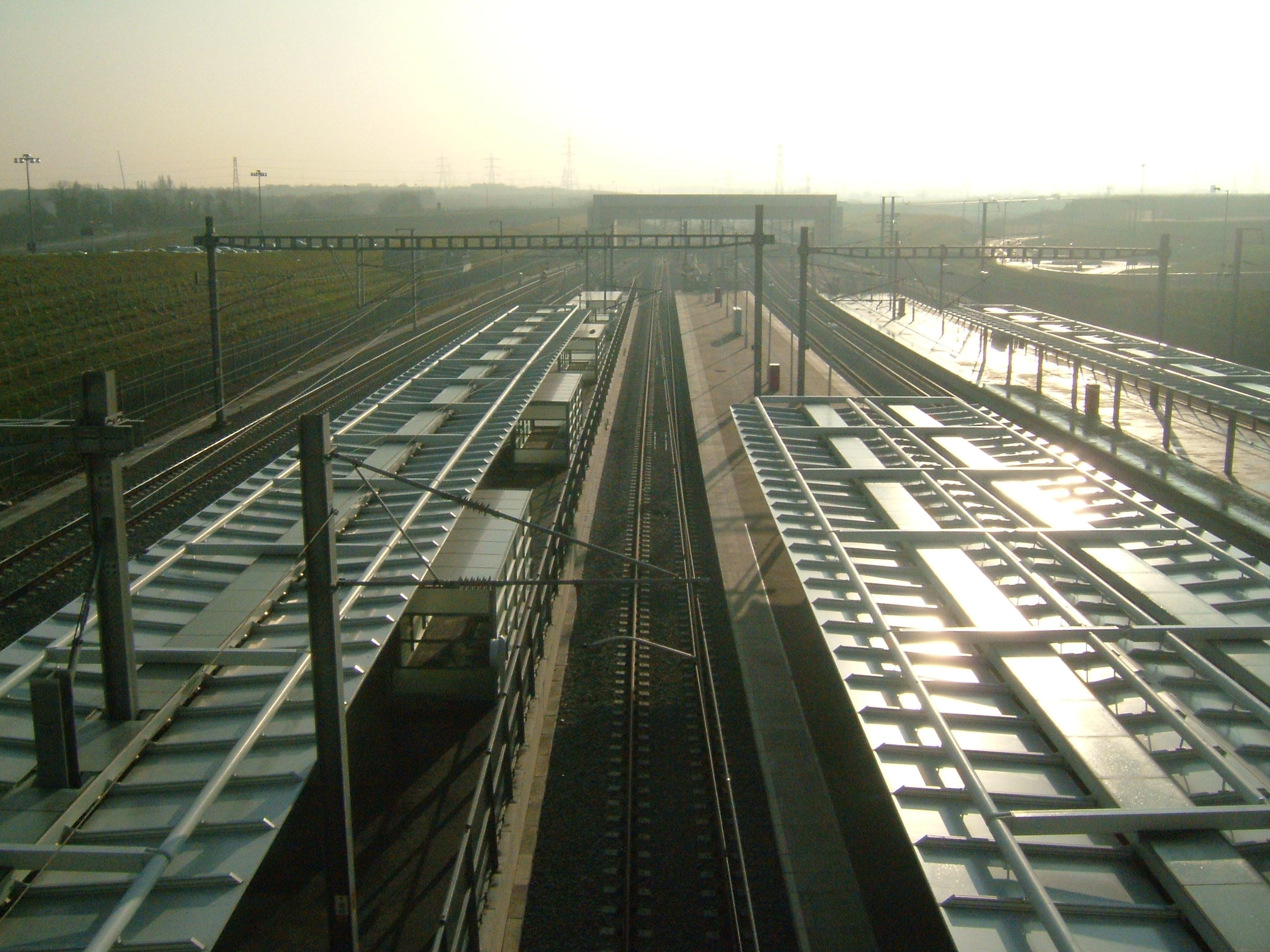 Ebsfleet International railway station. High speed track looking towards Paris. From bridge 629.